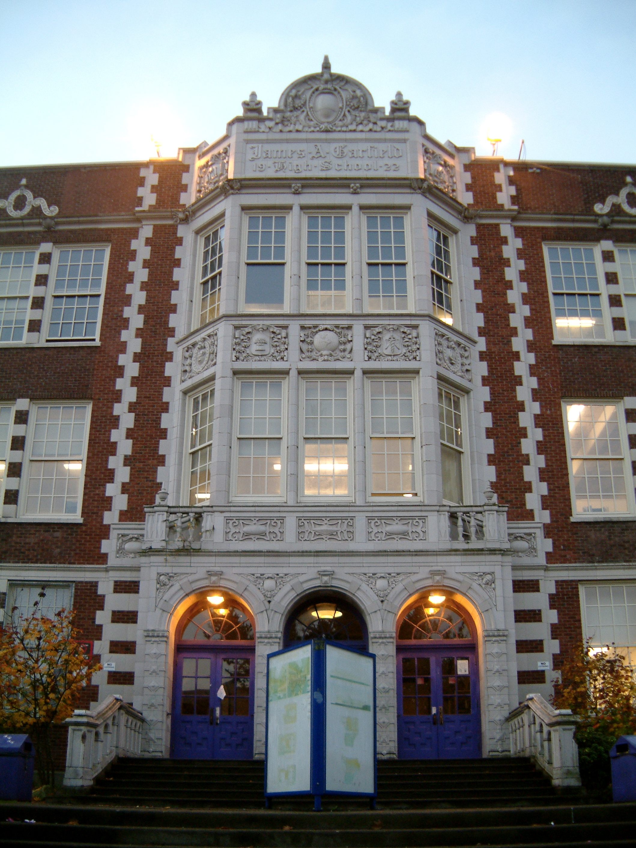 Taken 2005 October 25. Released under the Creative Commons "Attribution" license version 2.5 by myself, the author, Connor P. Lee (User:WAvegetarian).